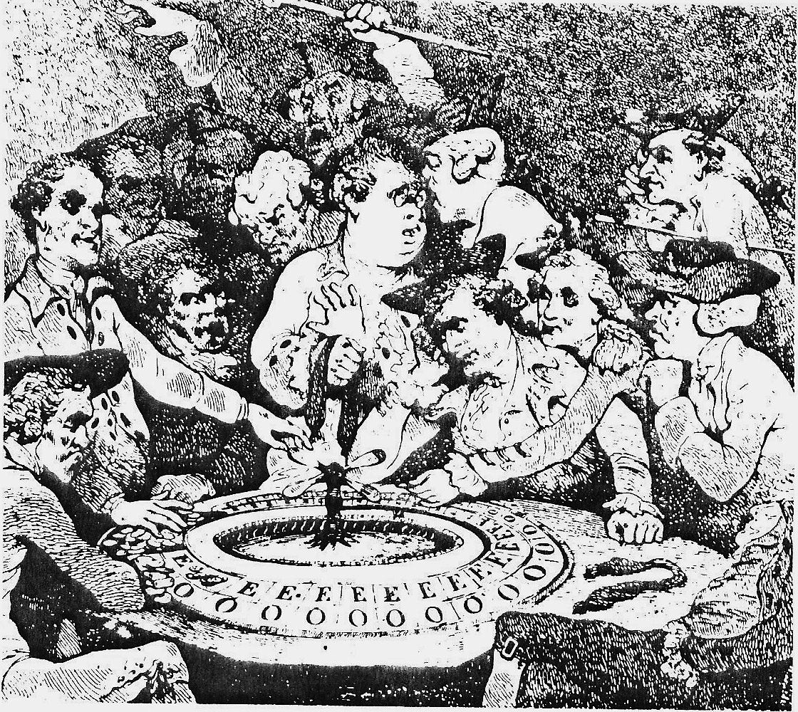 18th century caricature of men gambling on an "E.O." wheel (or even-odd wheel), a precursor of roulette. There is a ring of smaller "E" and "O" letters running around the outside of the ball area (inside the outer two rings of large "E" and "O" letters, which are for placing bets), but the inner ring is not really distinguishable in this image version.